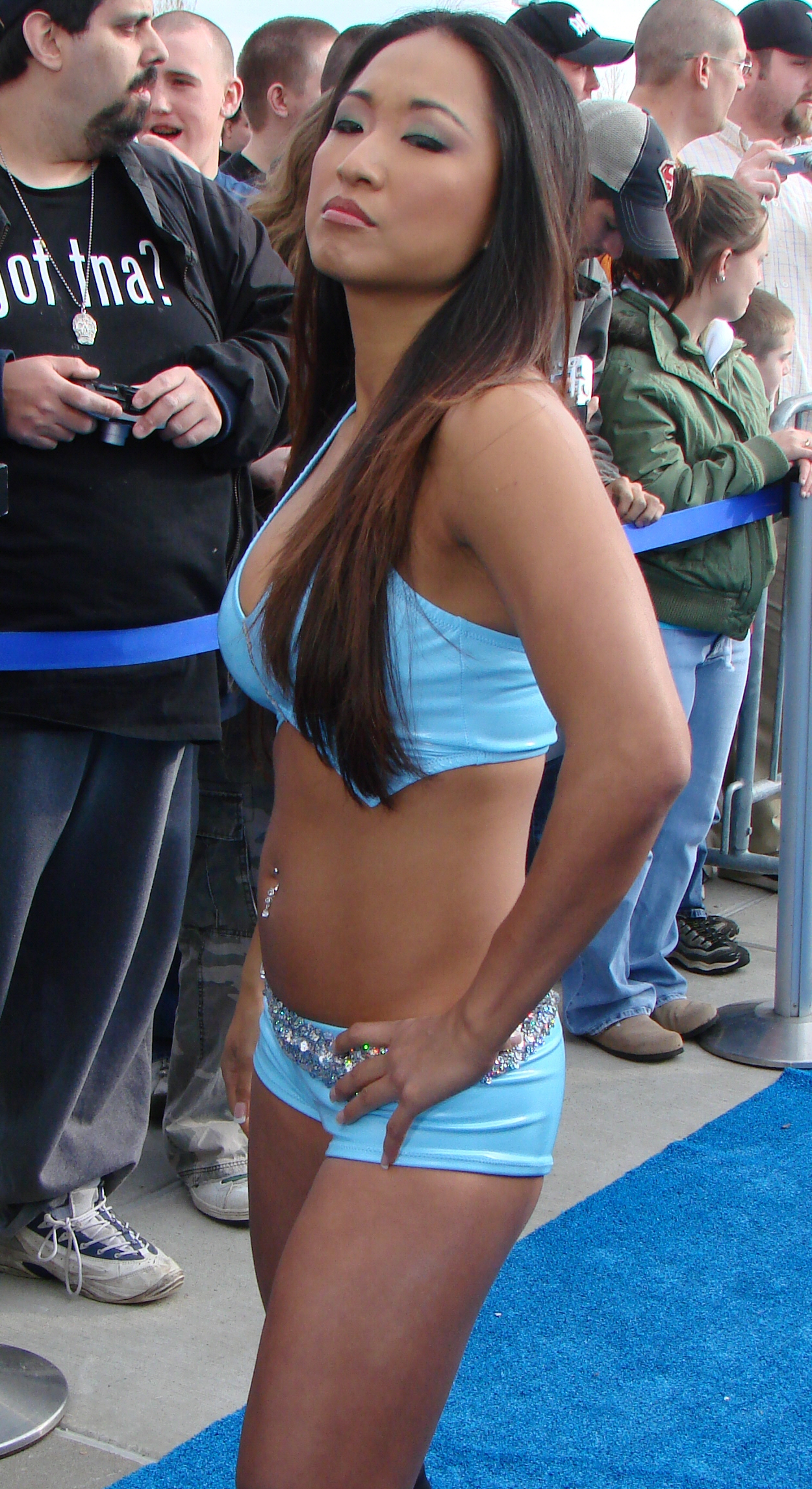 Gail Kim outside of the Family Arena in St. Charles, MO on April 15 2007.